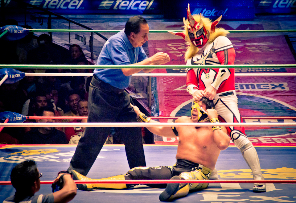 Japanese wrestler Jushin Liger tearing off Mexican wrestler Último Guerrero